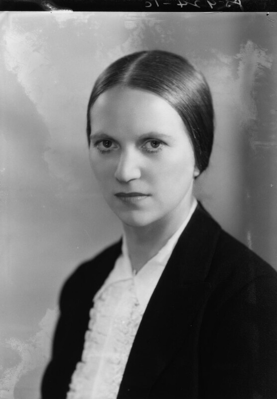 Ethel Edith Mannin by Bassano Ltd half-plate nitrate negative, 6 June 1939 Given by Bassano & Vandyk Studios, 1974 Photographs Collection NPG x18690